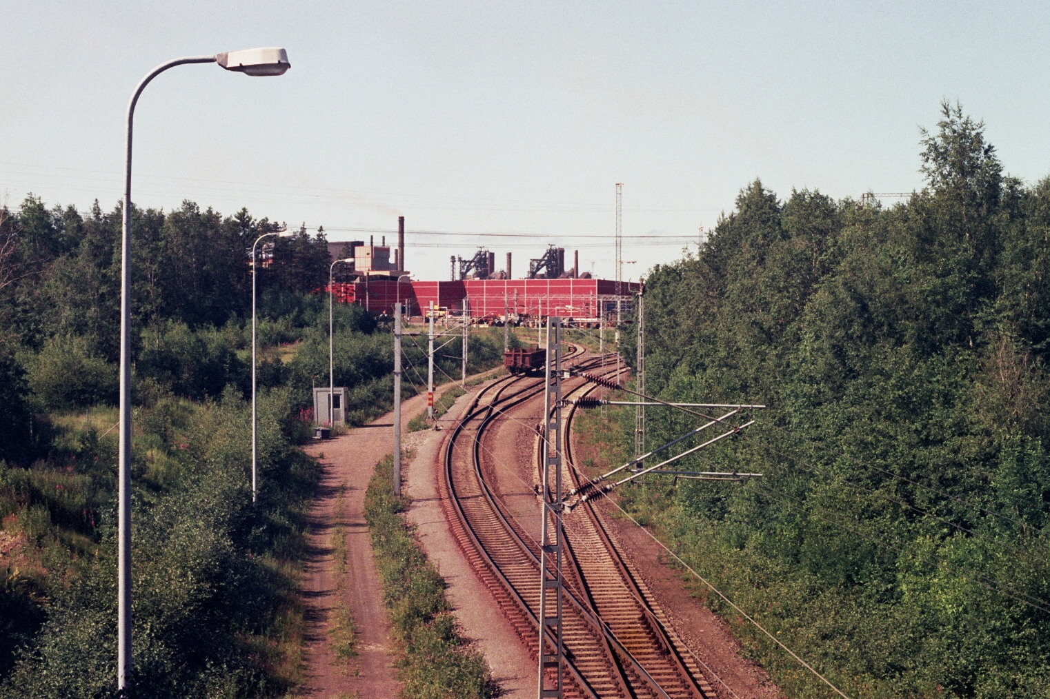 The Rautaruukki steel factory in the city of Raahe in Finland. The main products of the factory are hot-rolled strip and plate.